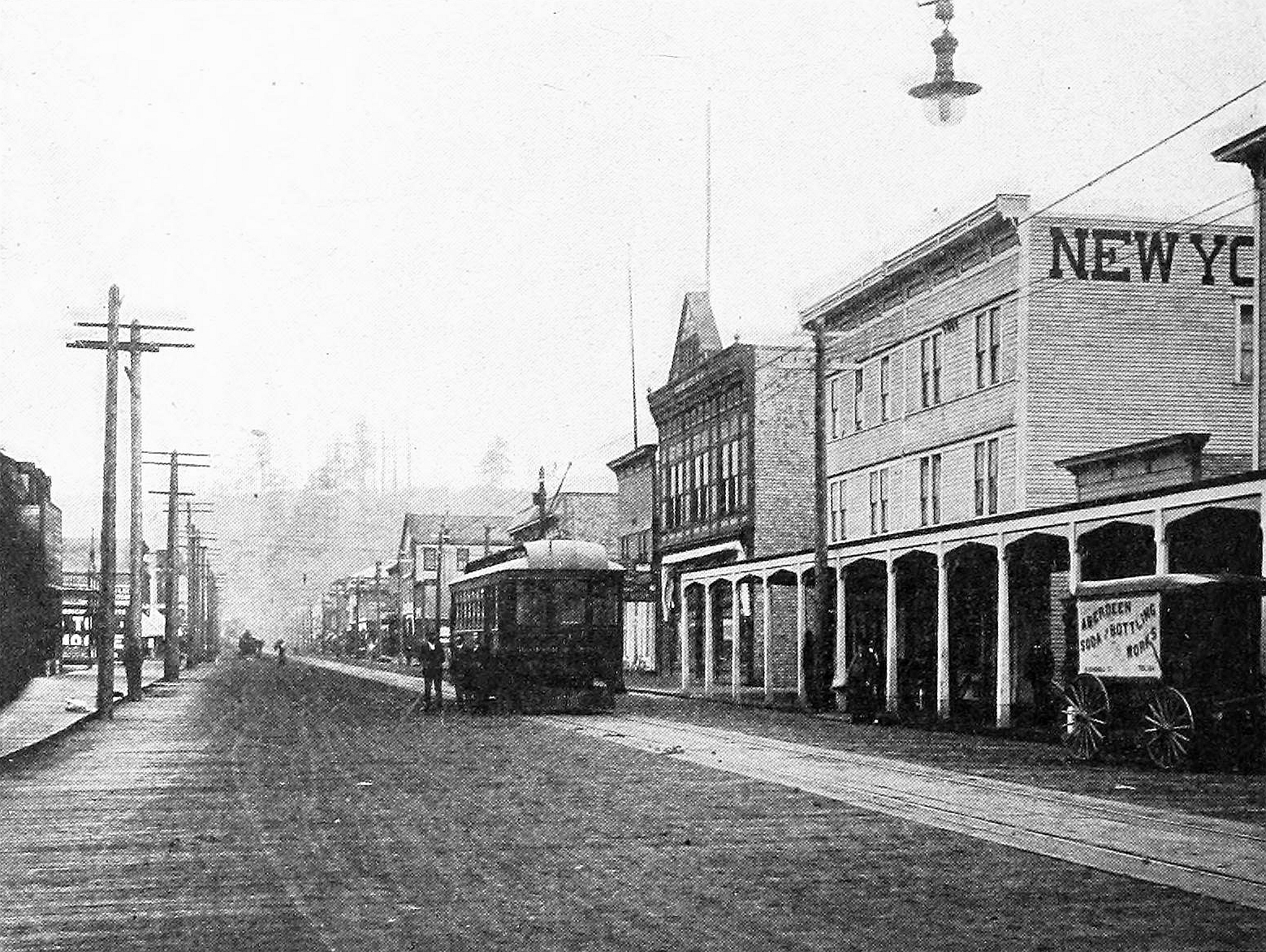 Eighth Street, Hoquiam, Washington.